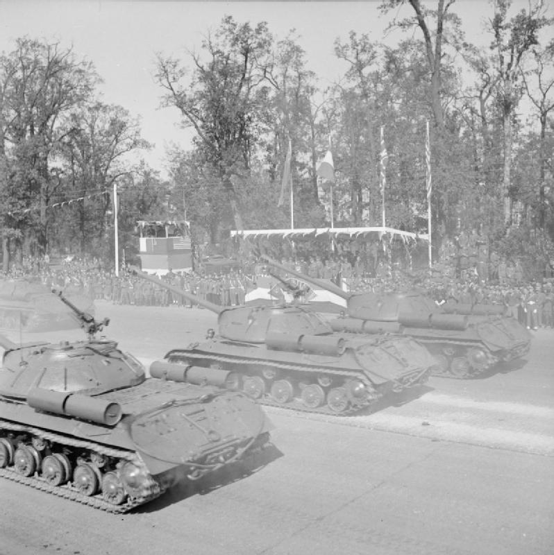 Germany Under Allied Occupation Soviet IS-3 Heavy Tanks pass the saluting base on the Charlottenburg Chaussee in Berlin during the Four Nations VJ Day parade.